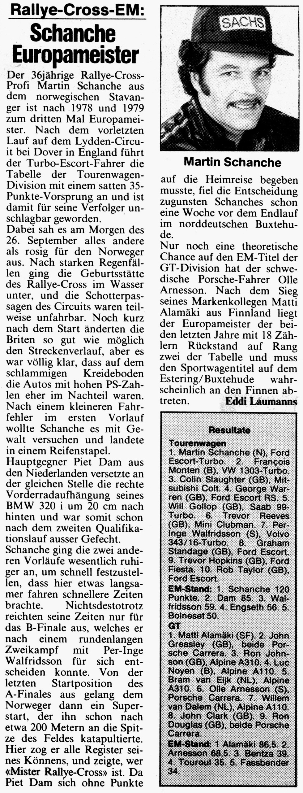 The first ever mentioning of the nickname "Mister Rallycross" for Norwegian Martin Schanche was published by myself (see credit under text) in issue 41/81 of the Swiss motorsports newspaper MOTORSPORT aktuell on September 30 1981. (Note: German speaking publications spelled the term Rallycross back then as Rallye-Cross, while most of them later changed to the international form Rallycross.)